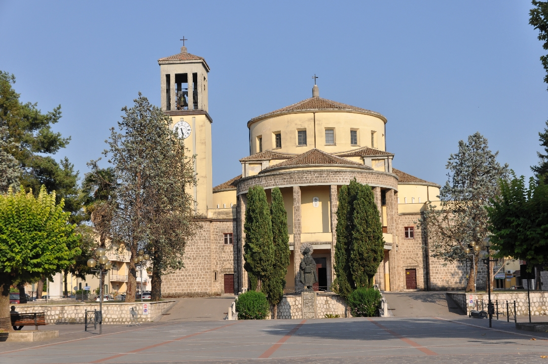 Aquino (Frosinone), concathedral San Tommaso, 2012 Dieses Foto entstand in Zusammenarbeit mit Stadtbesichtigungen.de Die Seiten Stadtbesichtigungen.de, der dazugehörige Reise Blog sowie die Facebookseite: Stadtbesichtigungen Rom dürfen dieses Bild für Ihre Veröffentlichungen ohne den Hinweis auf Wikipedia, Commons bzw der Lizenz verwenden. Die Verantwortlichen habe von mir (Ra Boe) die Originaldaten zur freien Verfügung übermittelt bekommen. Foro Appio Mansio Hotel